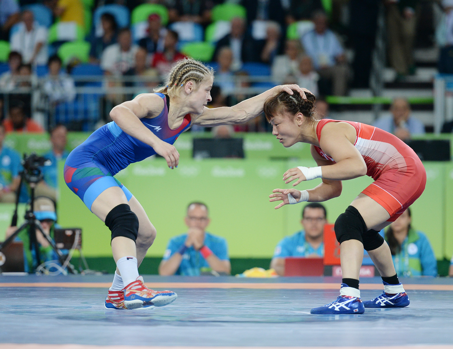 Wrestling at the 2016 Summer Olympics, Stadnik vs Tosaka